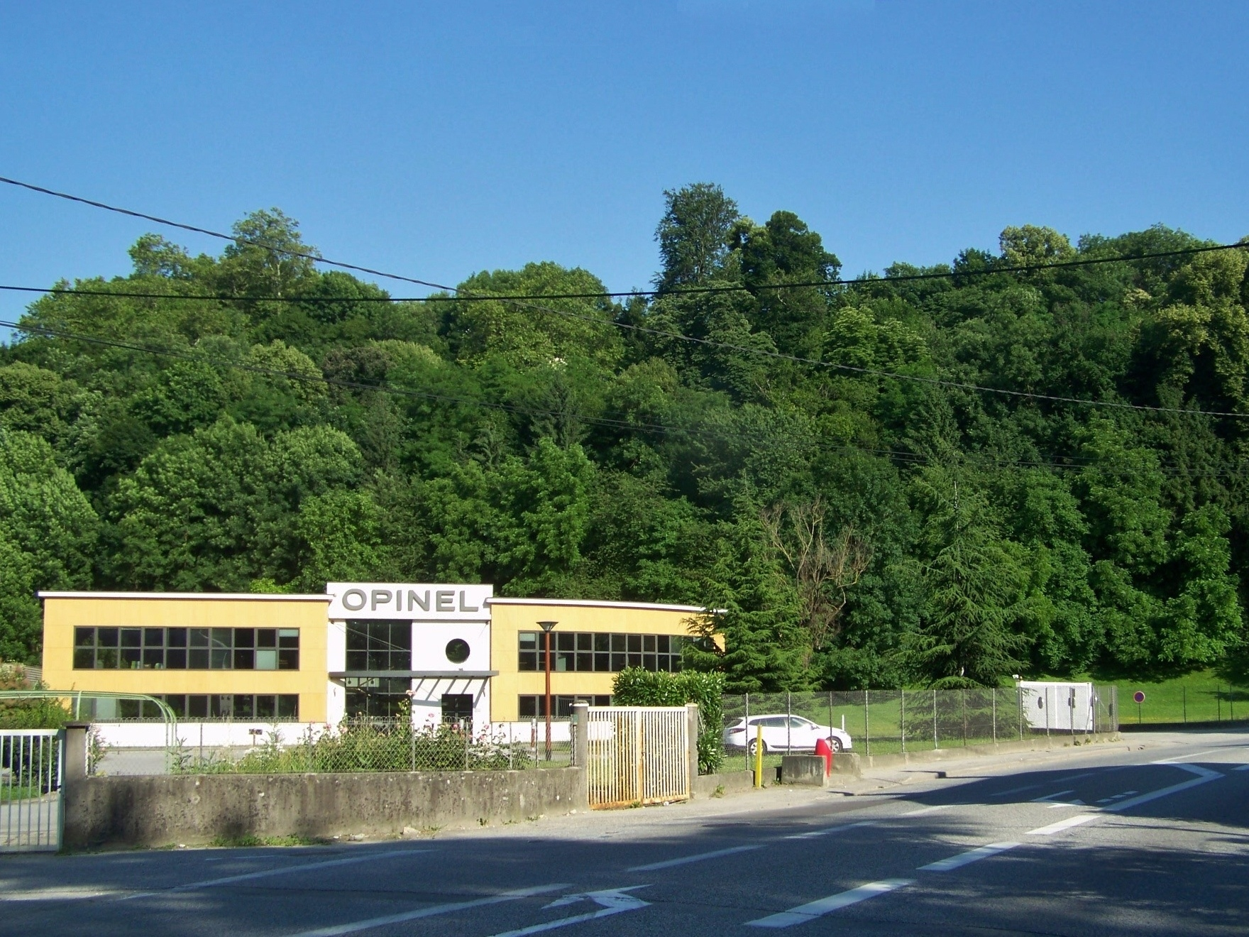 Corporate headquarters of Opinel in Chambéry, Savoie, France.